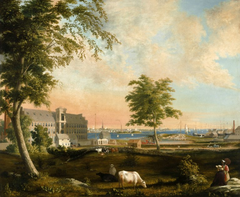 Wamsutta Mill William Allen Wall circa 1850 oil on canvas New Bedford Whaling Museum